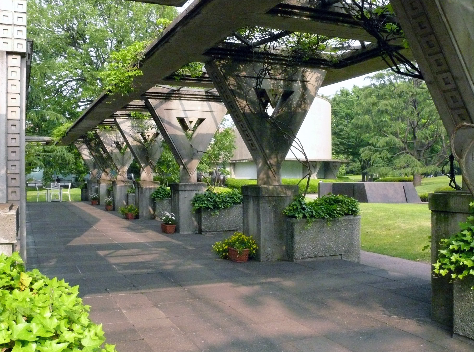 世田谷美術館・パーゴラ (三角形モチーフの連続) / The pergola running around Setagaya Art Museum, a sequence of the most characteristic motif (triangle truss) of this building.